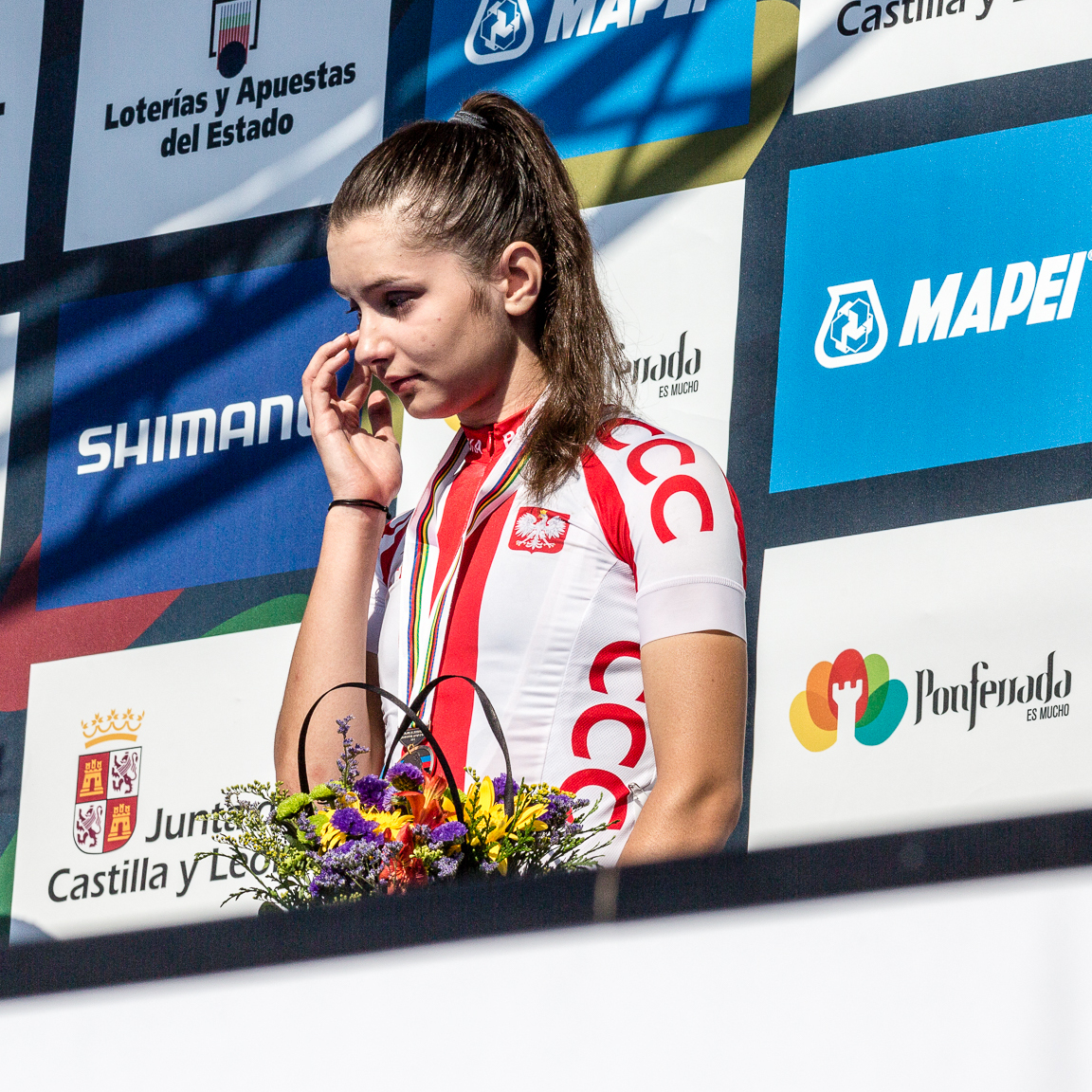 RR Women's Junior